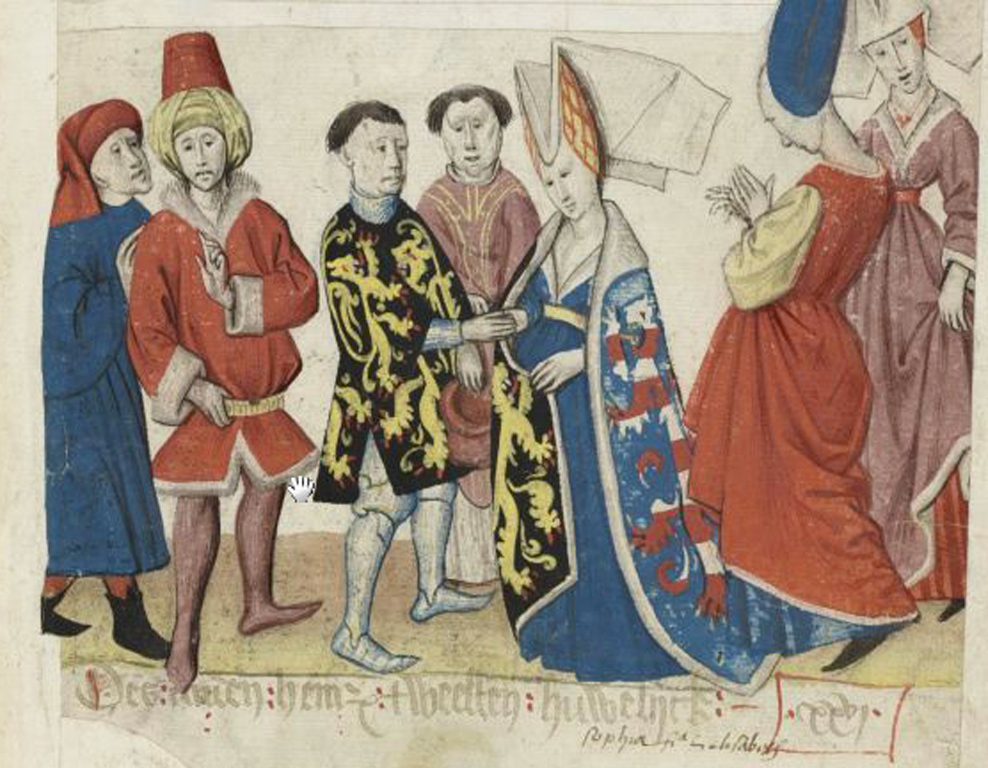 Marriage of Henry II of Brabant and Sophie of Thuringia